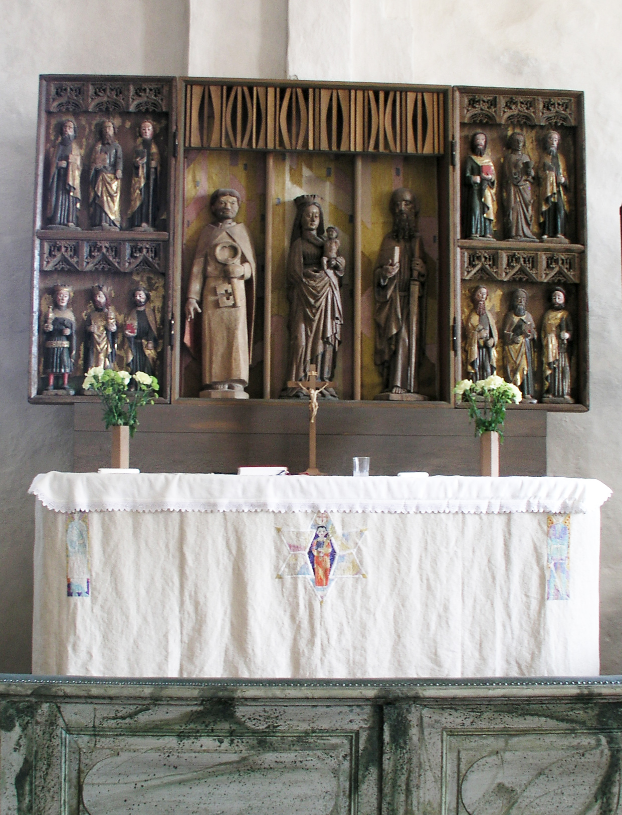 Åker Church, Diocese of Strängnäs, Sweden.